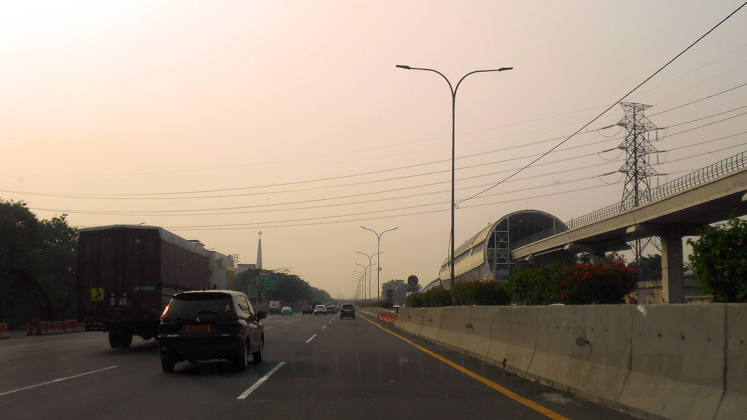 Trees (left) are grows in this toll road, Taman Mini LRT station (right) is still under construction and the station has not yet to be operated until Greater Jakarta LRT is completion.